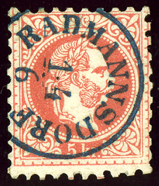 5 kr Austrian stamp cancelled Radmannsdorf (Slovenia) ca 1867